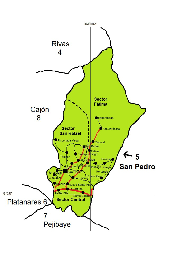 San Pedro´s map